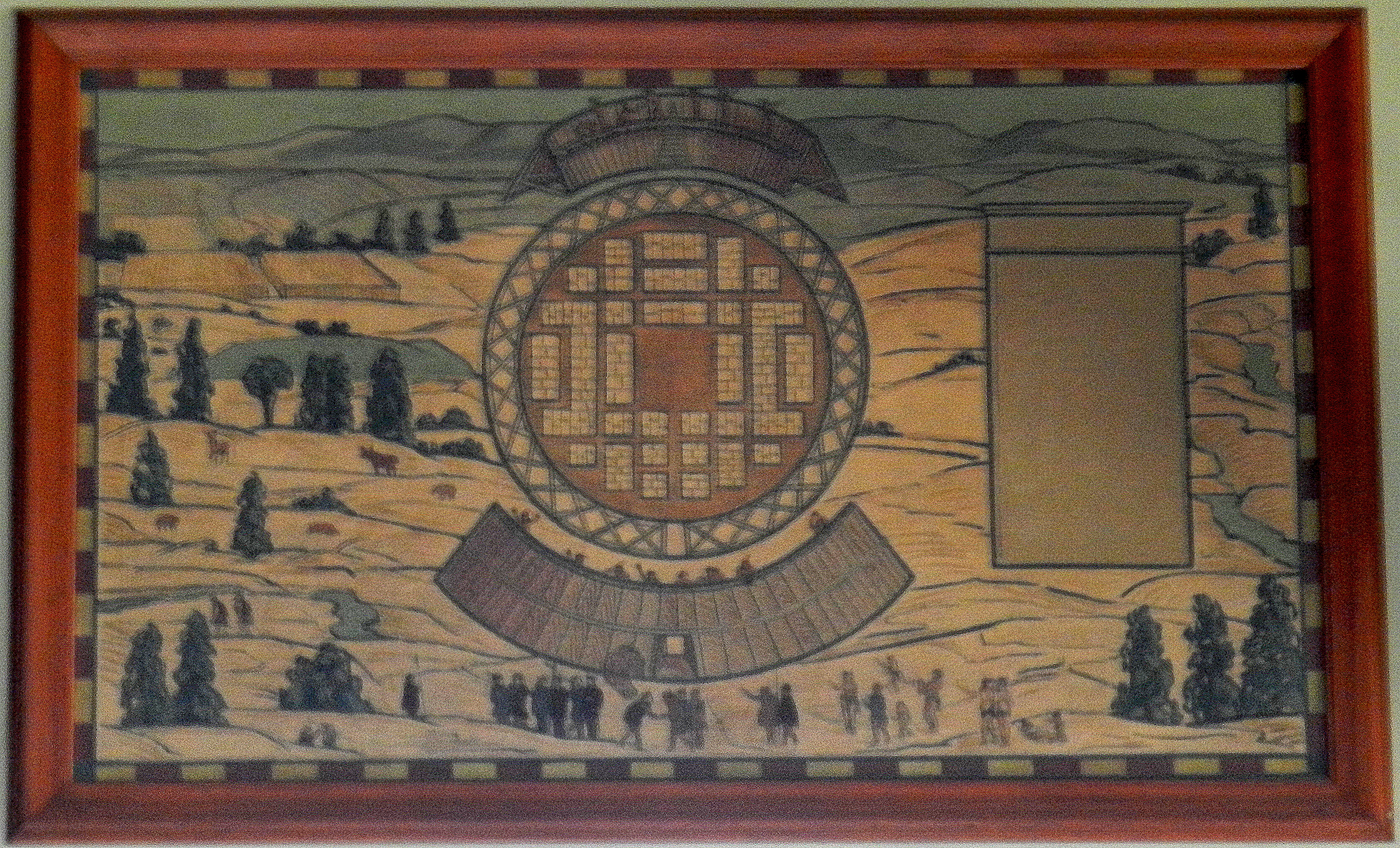 Painting at Mount Royal Park (Montreal)